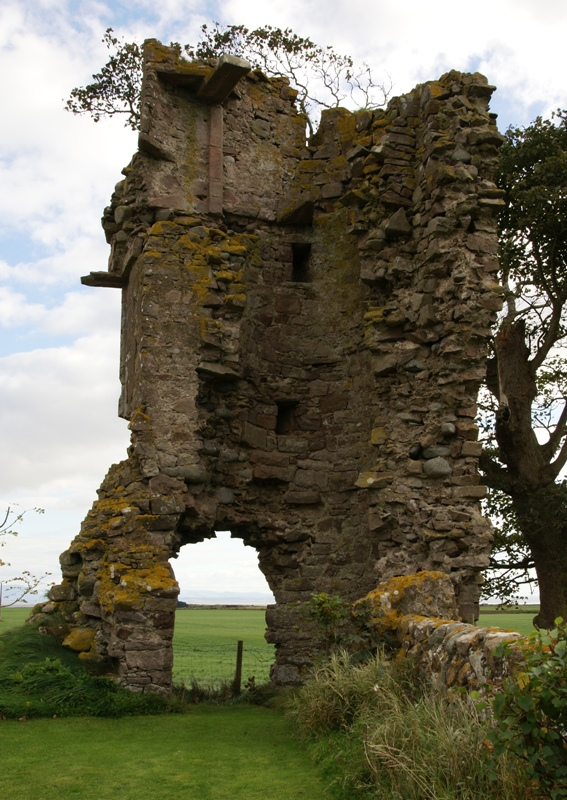 Wreaths Tower, Dumfries and Galloway, Scotland.